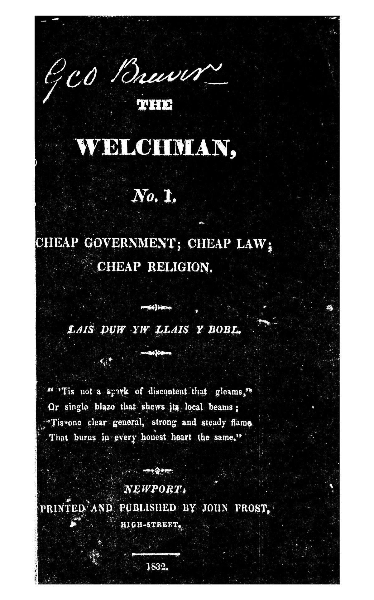 An irregular politically radical periodical that published political articles by the future Chartist leader, John Frost (1784-1877), the periodical's editor.